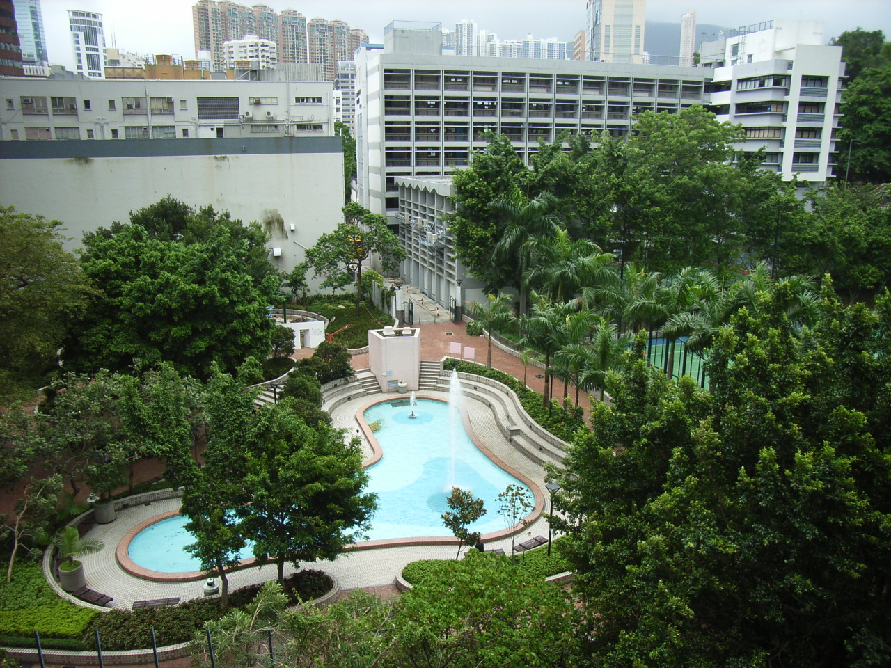 Wan Chai Park 灣仔公園 BY RICHARD MARTIN. View of Saint Joseph's Primary School